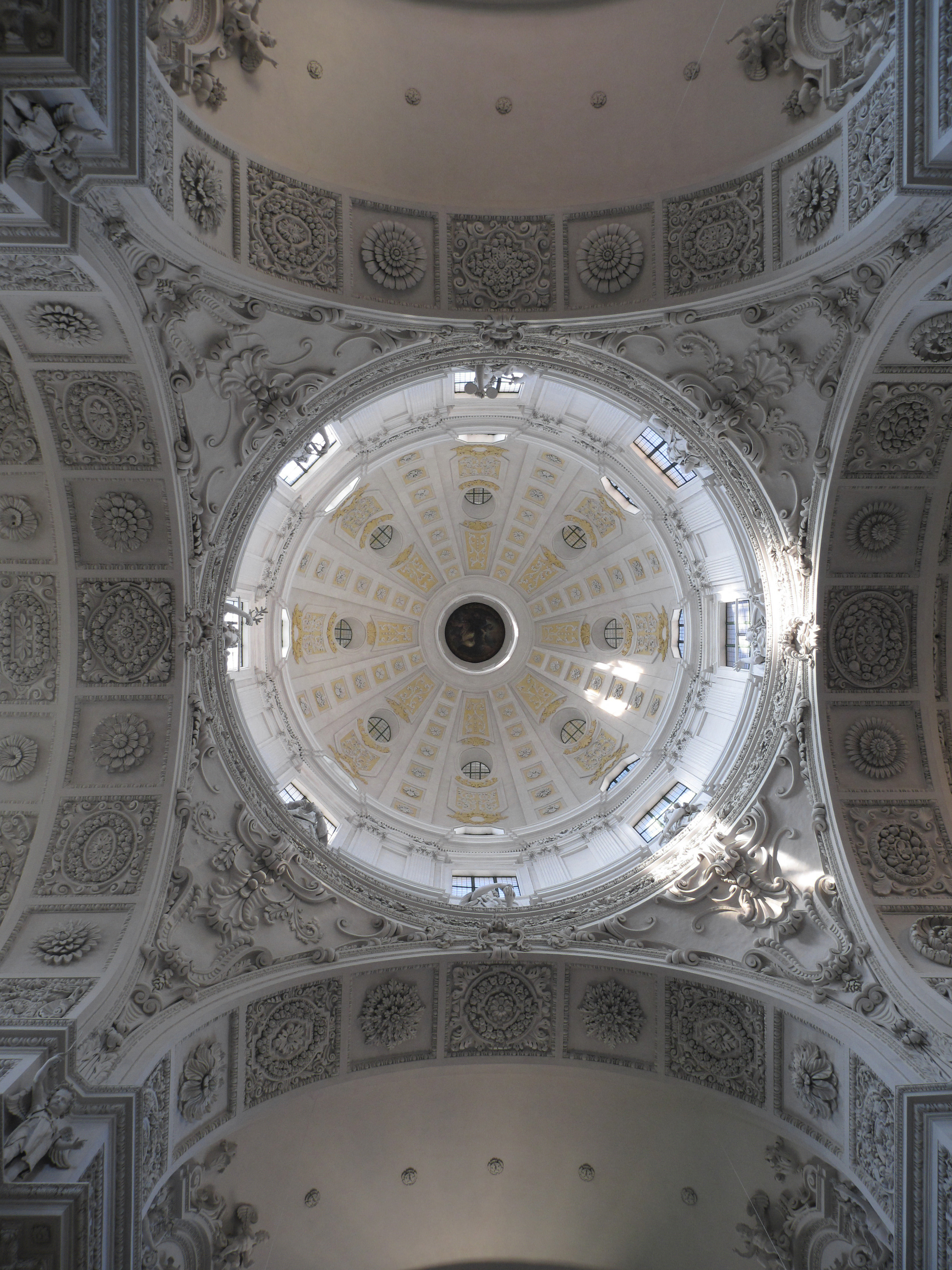 Theatinerkirche, Munich, inside (cupola)